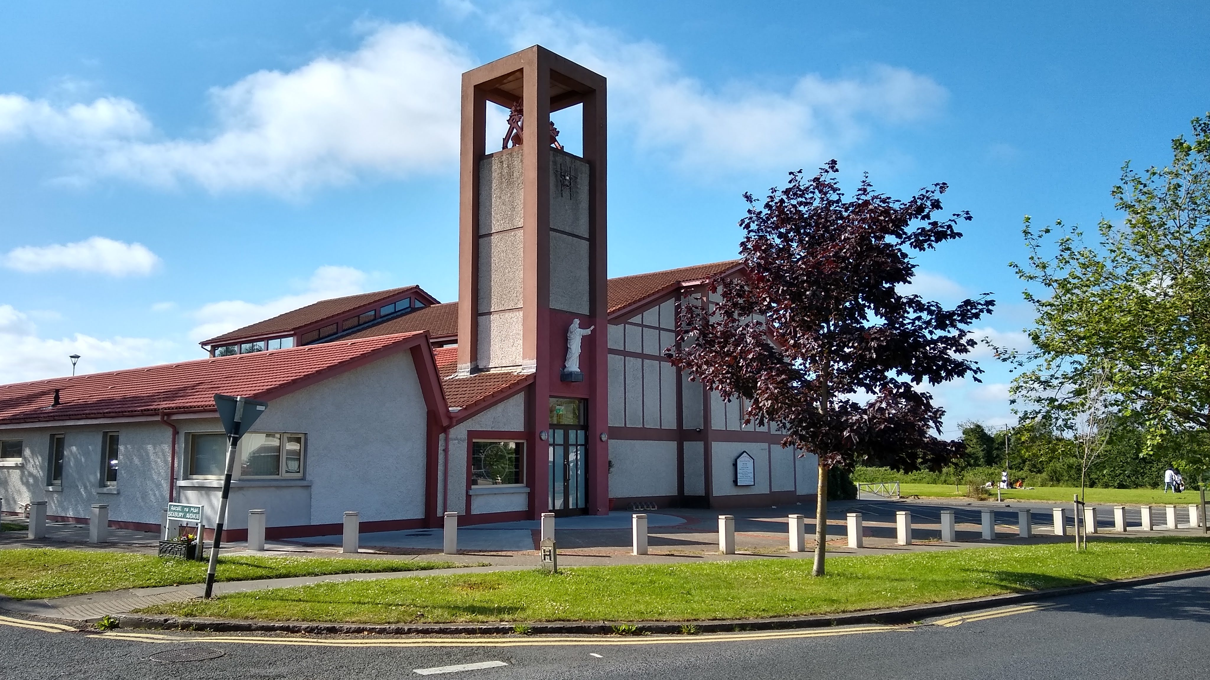 Church of the Sacred Heart, Seabury, Malahide